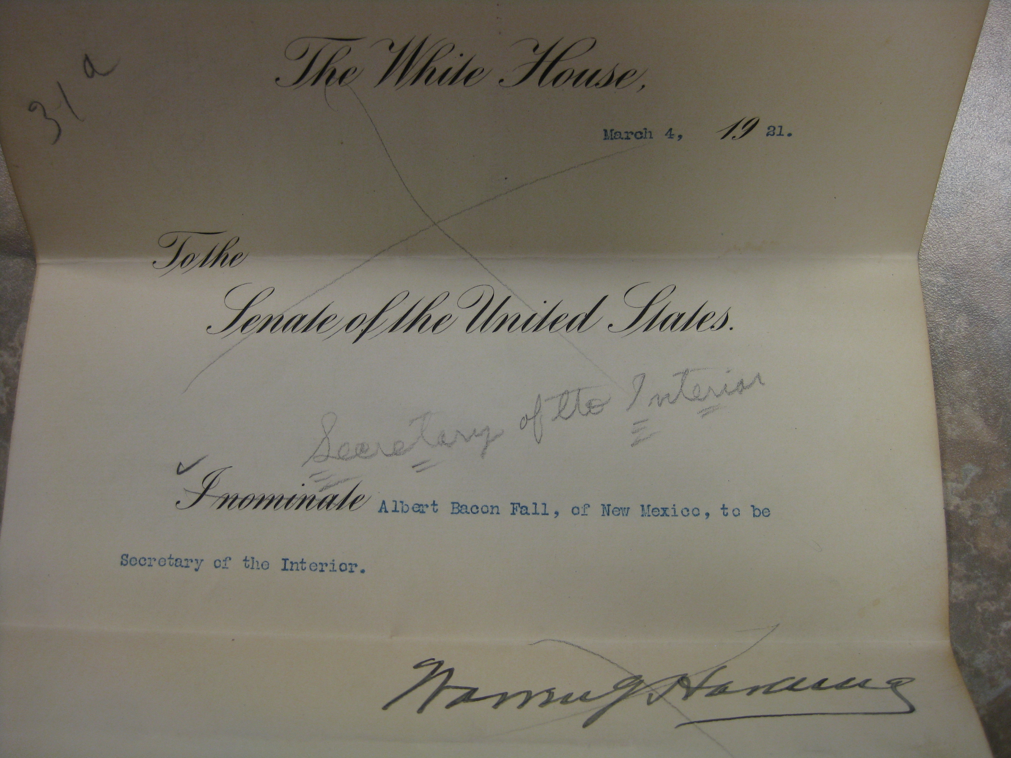 Warren Harding's Nomination of Albert Fall to serve as Secretary of the Interior. Courtesy of the National Archives and Records Administration.